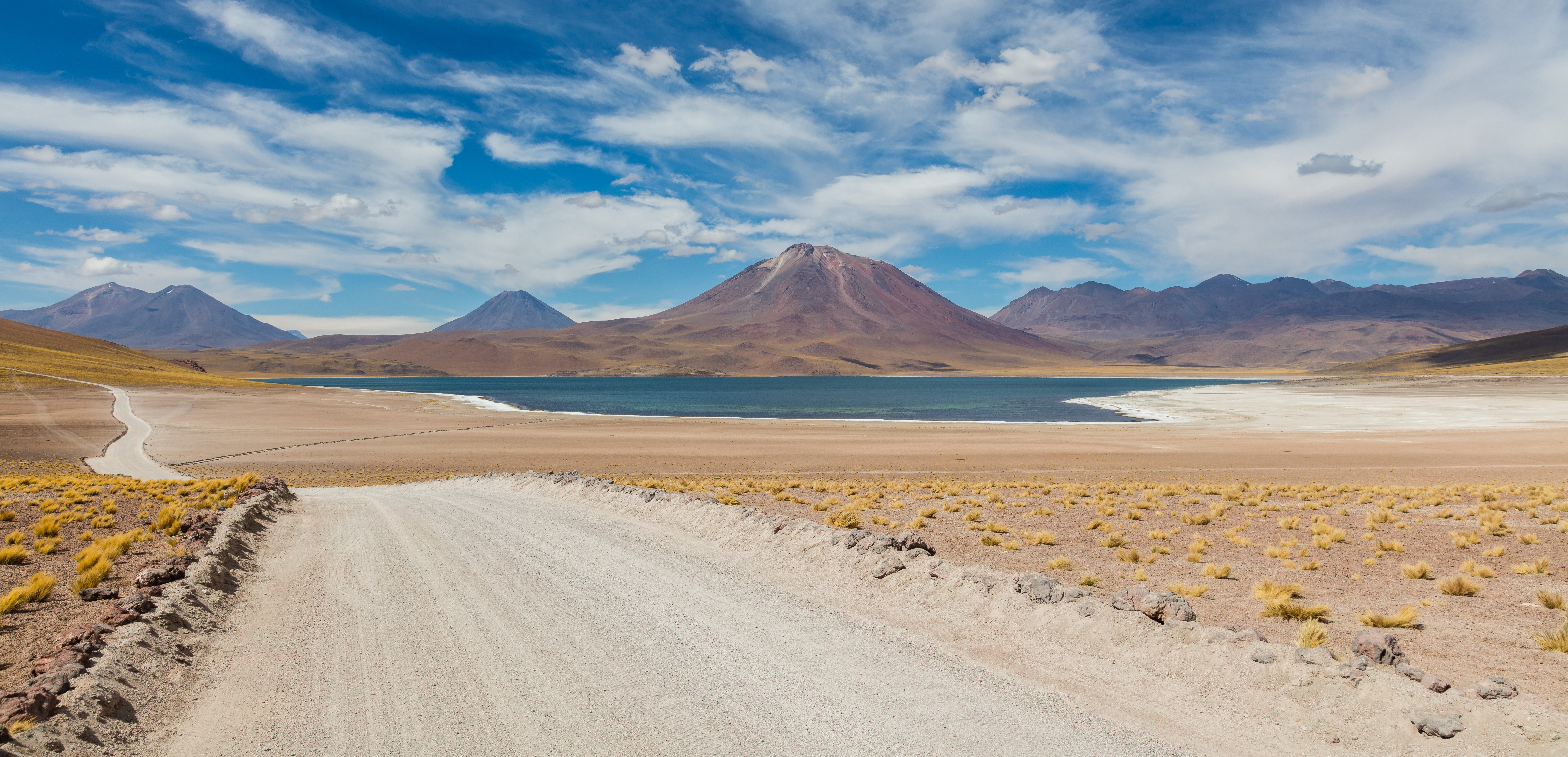 Miscanti lake, Chile